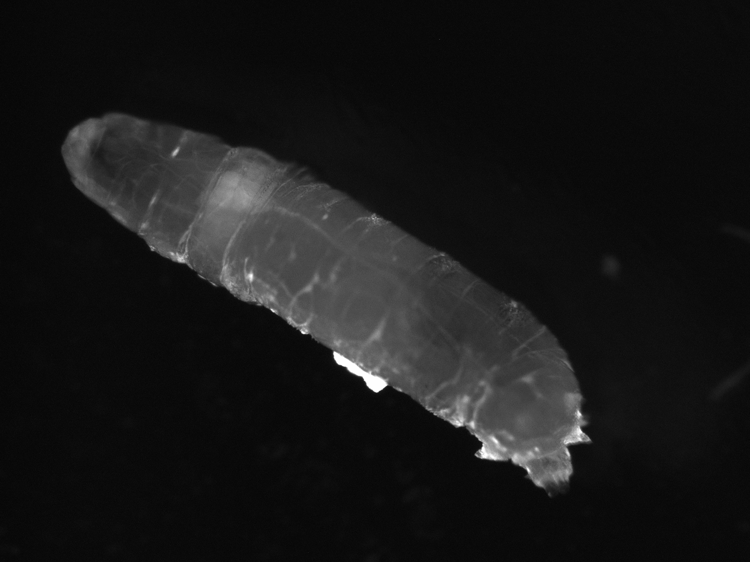 Immunfärbung chaGAL4. Zu erkennen sind die zwei Gehirnloben und das ventralen Ganglion der sich entwickelnden Drosophila Larve.